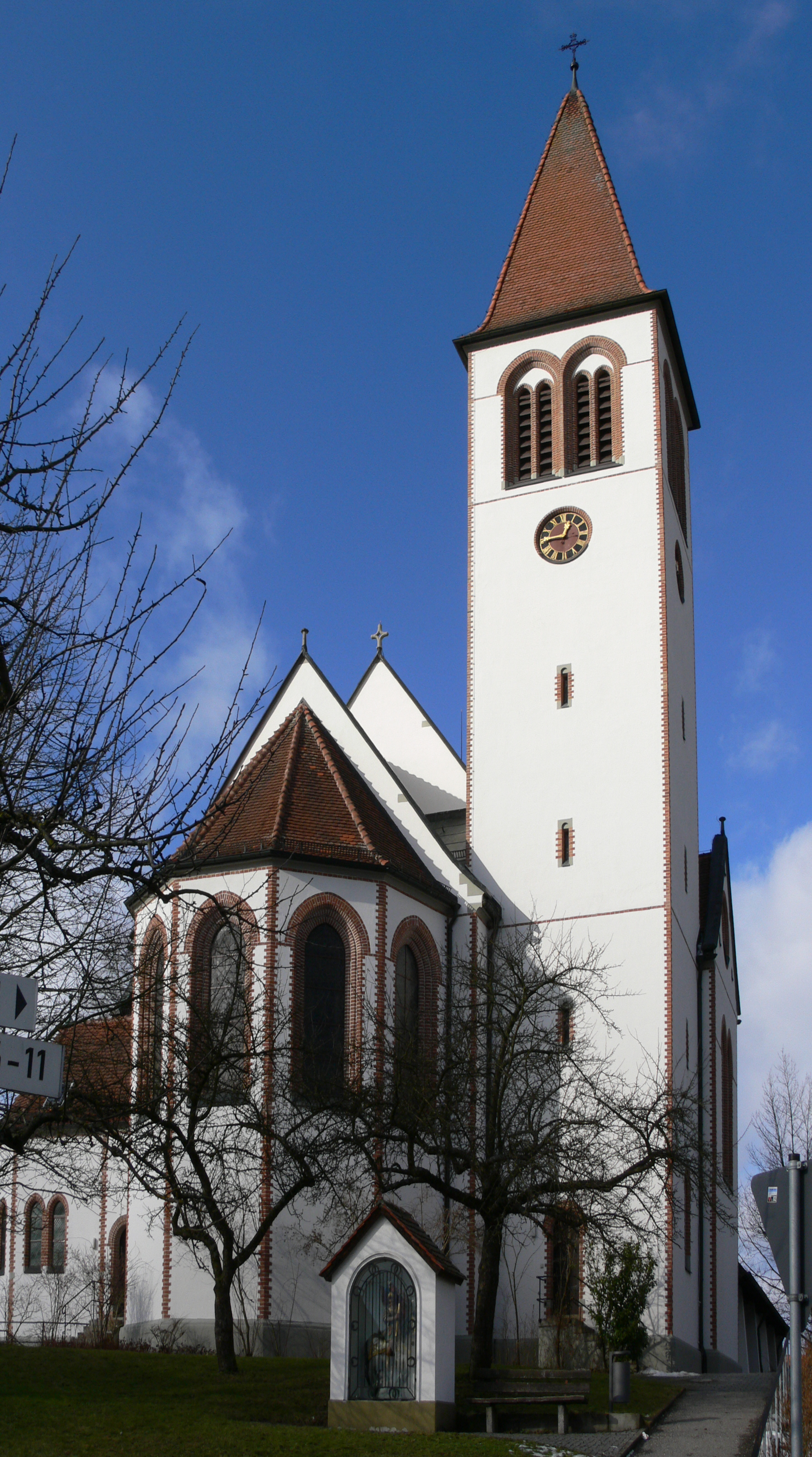 Wolpertswende: Mochenwangen, Pfarrkirche Mariä Geburt, Außenansicht Architekt: Joseph Cades (1855–1943) DescriptionGerman architectDate of birth/death15 September 185531 May 1943Location of birth/death(Schemmerhofen-)AltheimStuttgartWork locationStuttgartAuthority control : Q1706718 VIAF: 8242279 ULAN: 500229166 GND: 12142734X